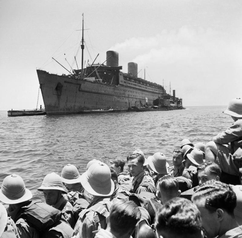 British troops arrive in the Middle East having been transported by the liner QUEEN ELIZABETH, 22 July 1942. Reinforcements arrive in the Middle East having been transported by the liner QUEEN ELIZABETH, 22 July 1942.